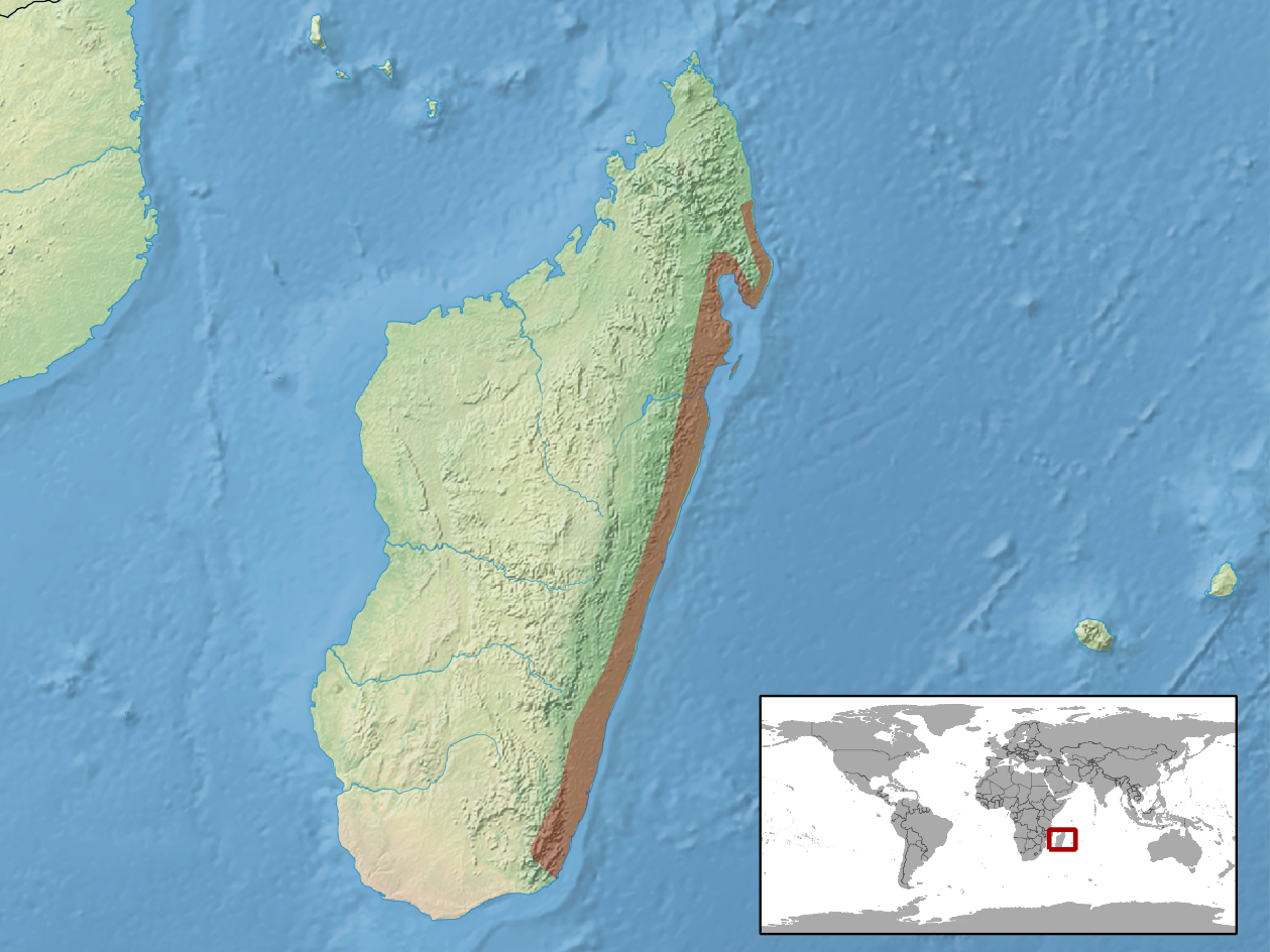 geographic distribution of Uroplatus sameiti (Native: Madagascar)